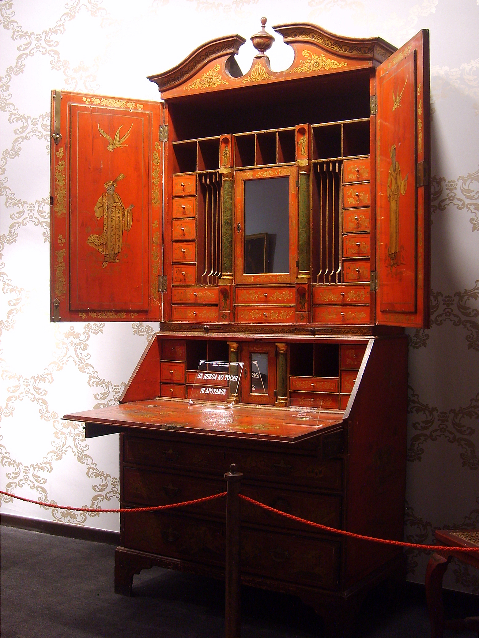 Escritoire.